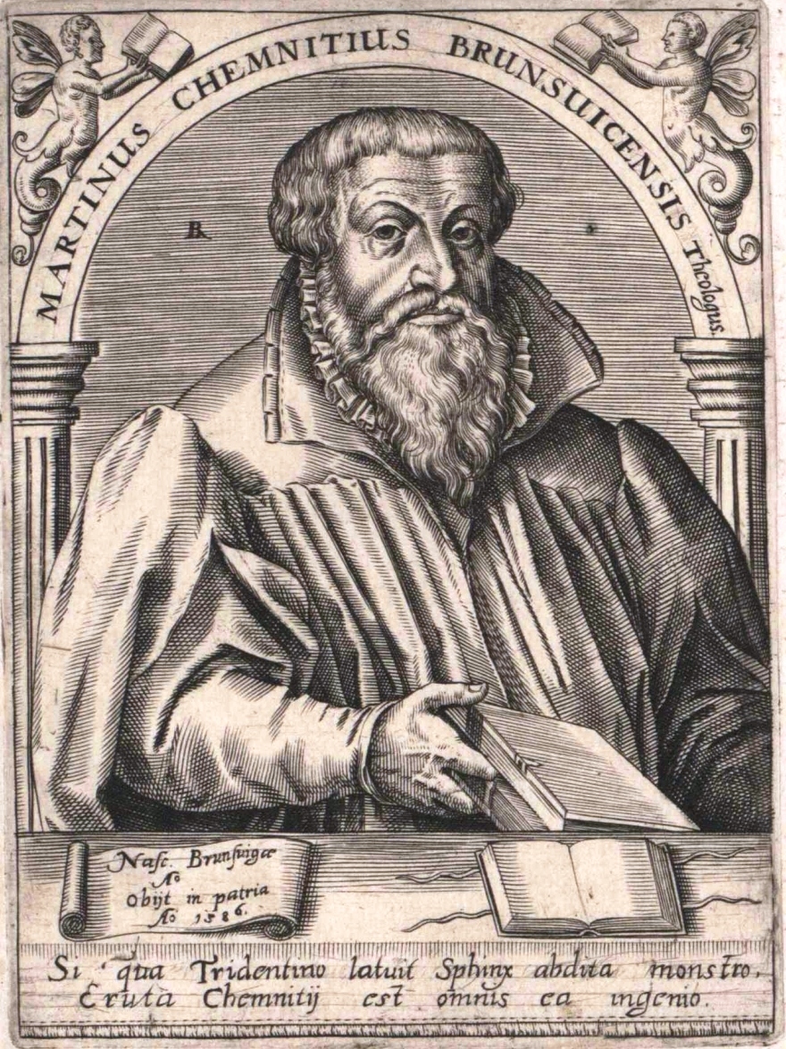 Martin Chemnitz (November 9, 1522 – April 8, 1586) was an eminent second-generation Lutheran theologian, reformer, churchman, and confessor.